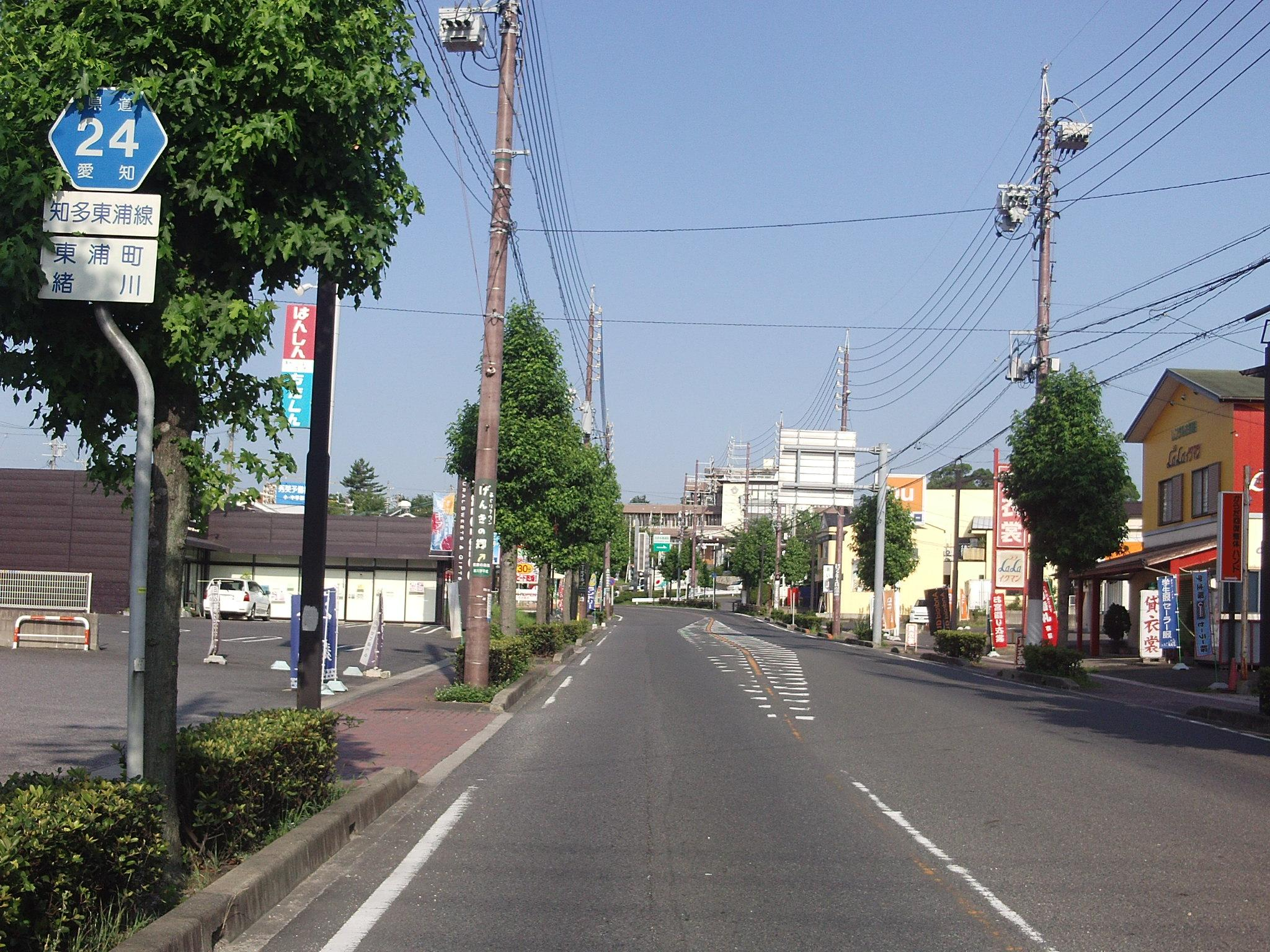 Aichi prefectural road No.24 in Ogawa, Higashiura-cho, Chita-gun, Aichi.